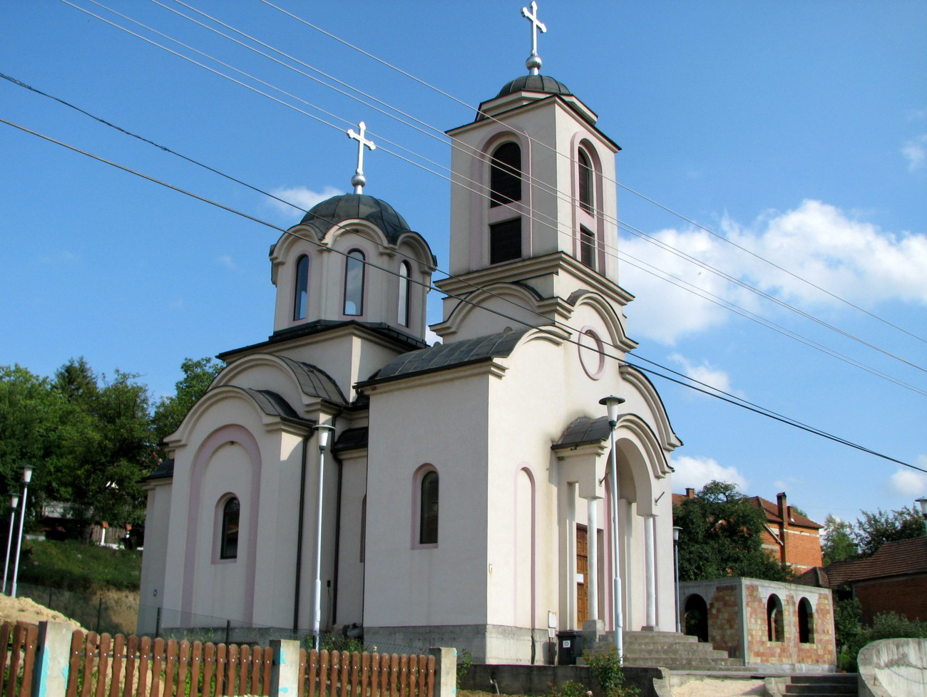 Church in Krepoljin, Serbia